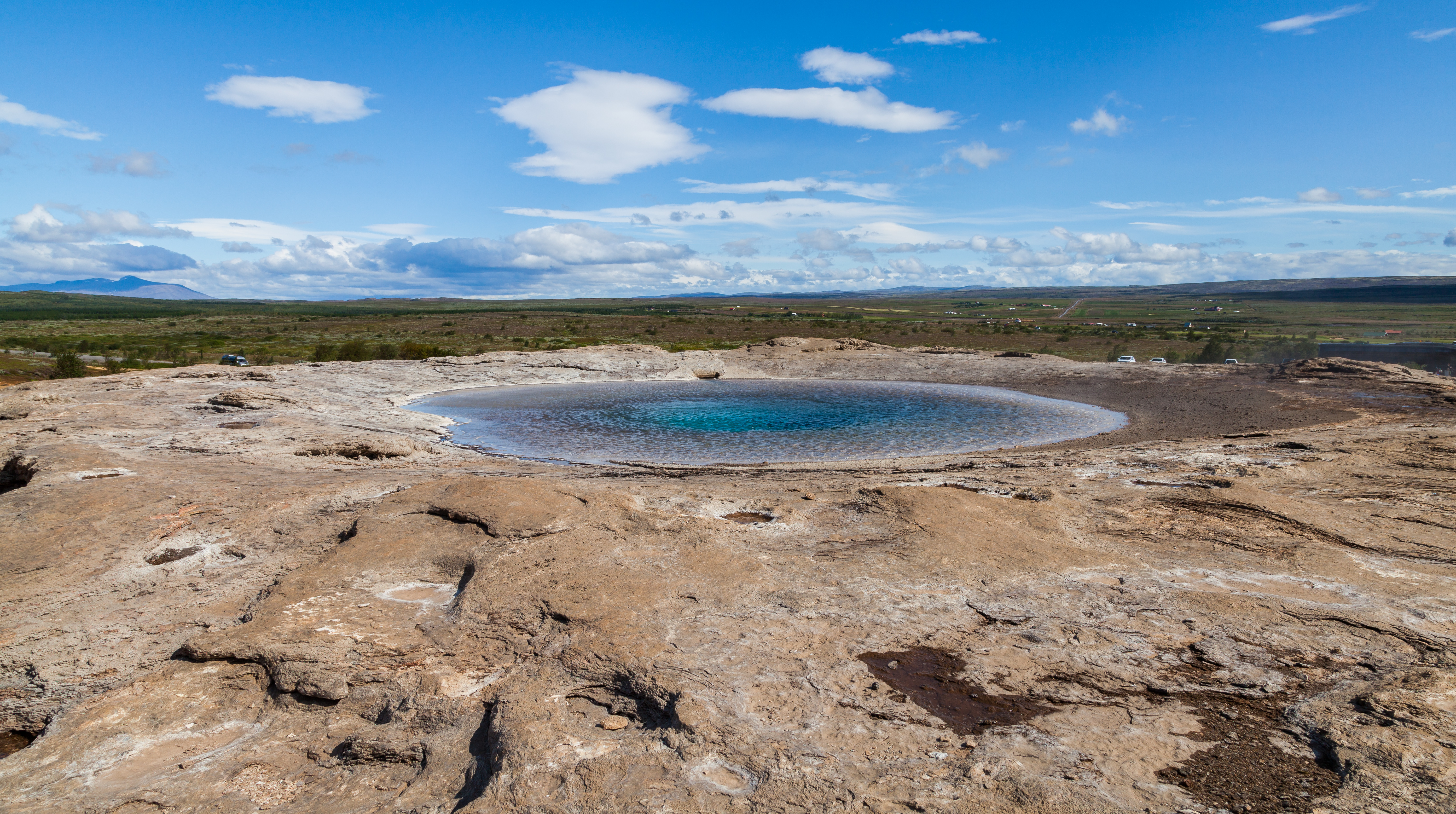 Great Geysir, Geysir Geothermal Field, Suðurland, Iceland